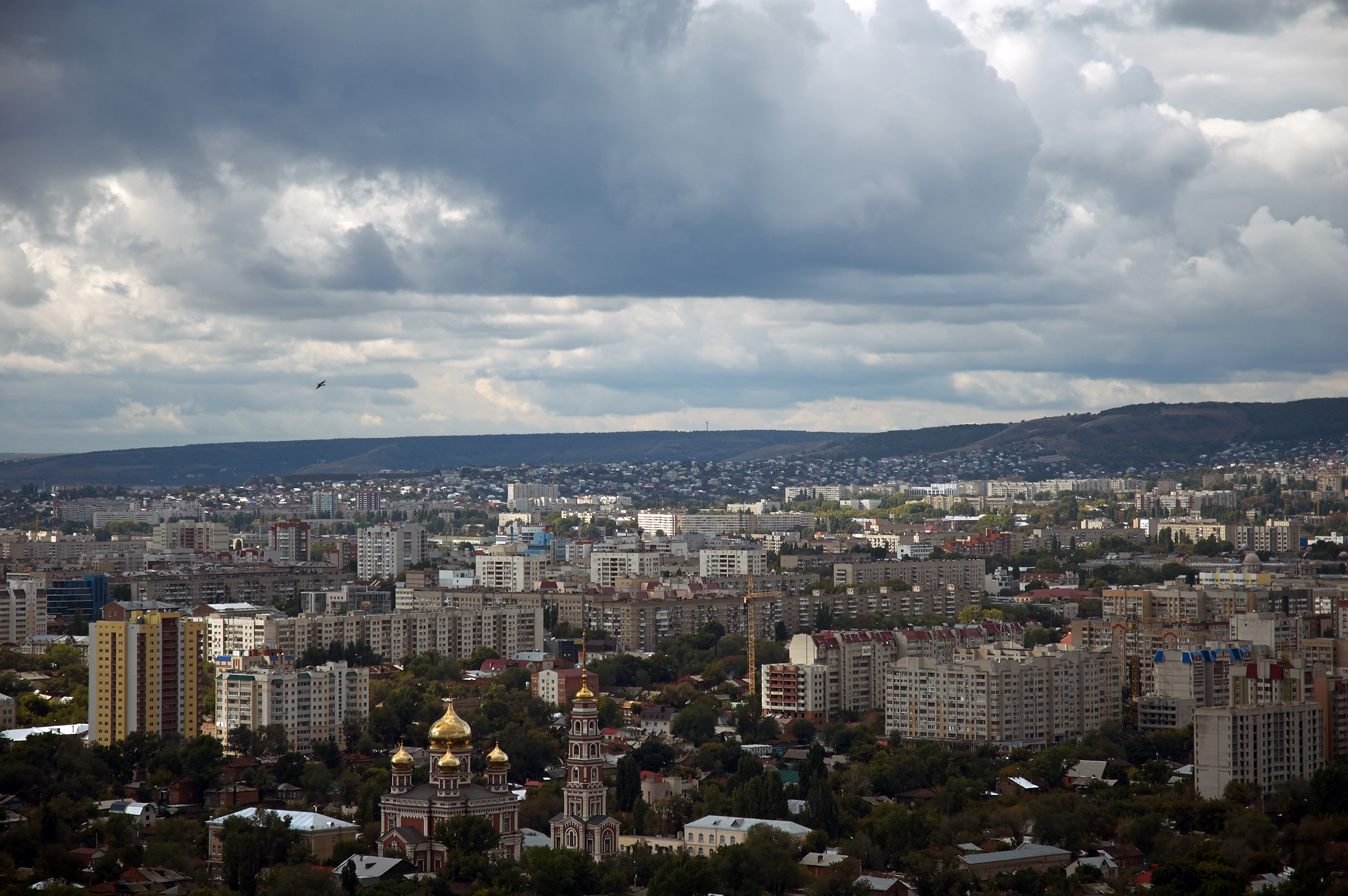 Saratov - general view of the city.